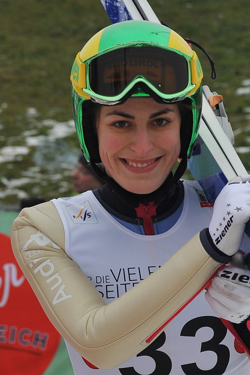 FIS Ski Jumping World Cup Ladies 14th World Cup Competition Normal Hill Individual Hinzenbach (AUT) Sun 2 Feb 2014: Evelyn Insam